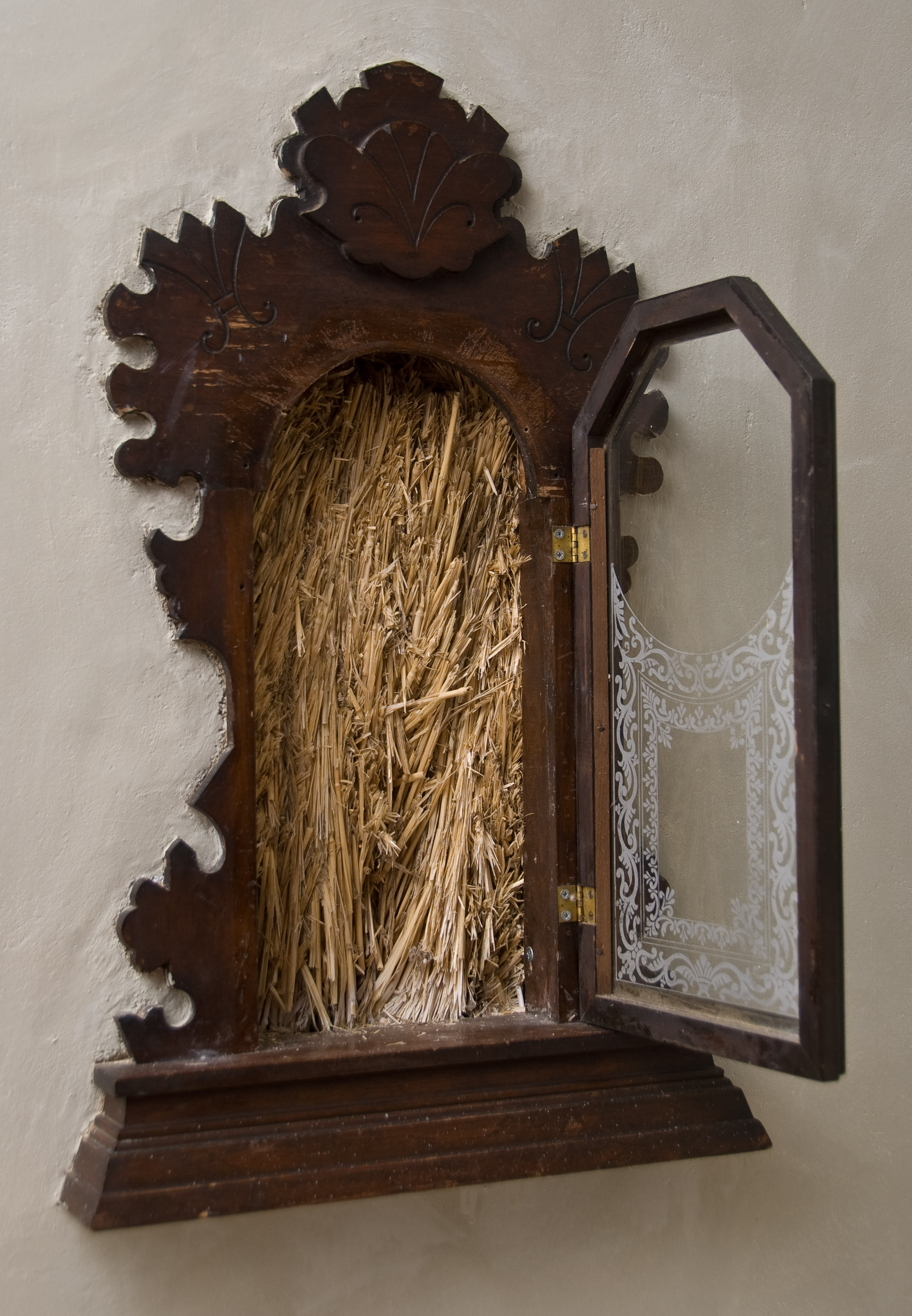 The truth window of an architect designed house with strawbale infill walls. The wall is cement rendered strawbale. Ballan, Victoria, Australia.